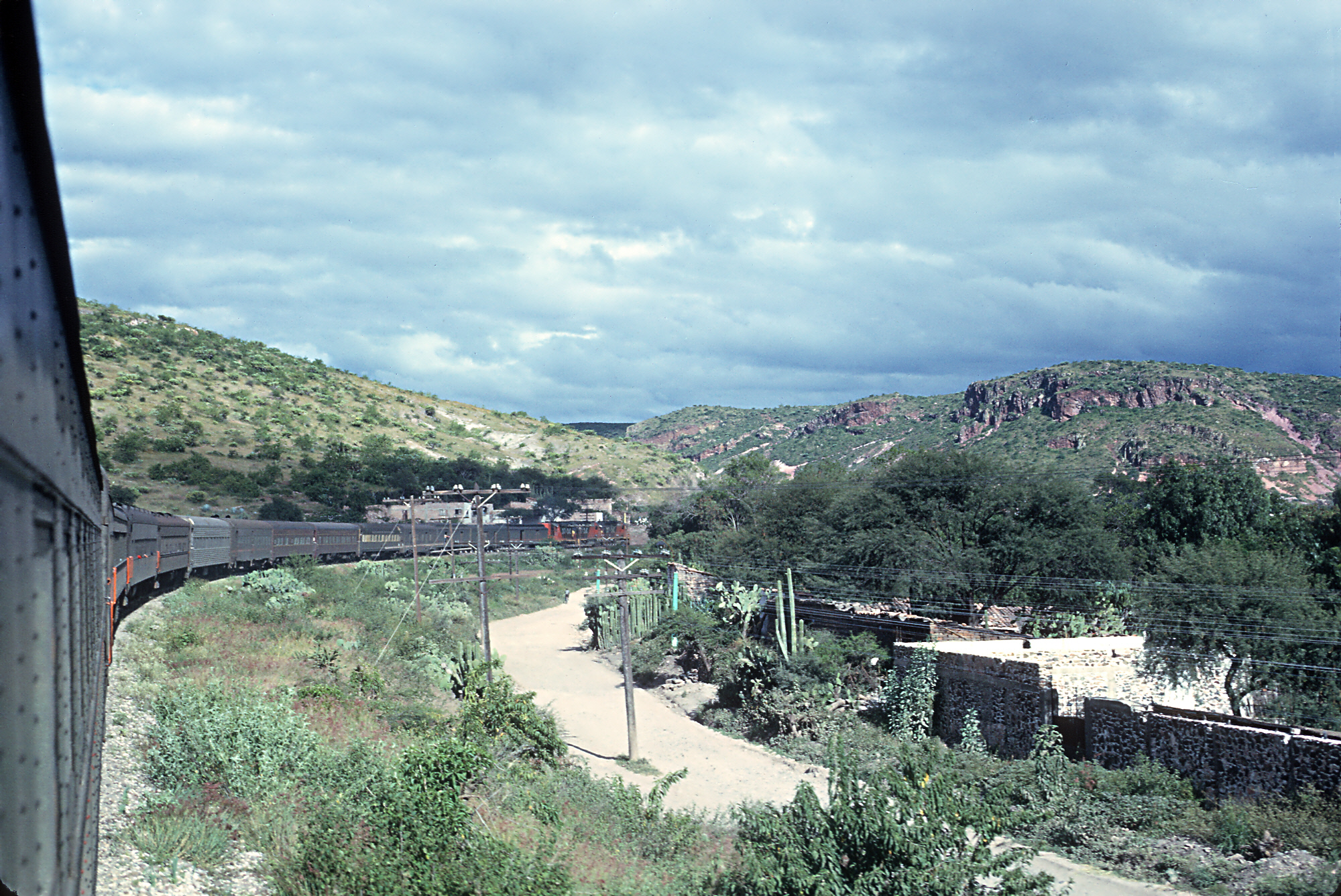 N de M Train 51 entering Apizaco, Tlax, Mexico on September 11, 1966.